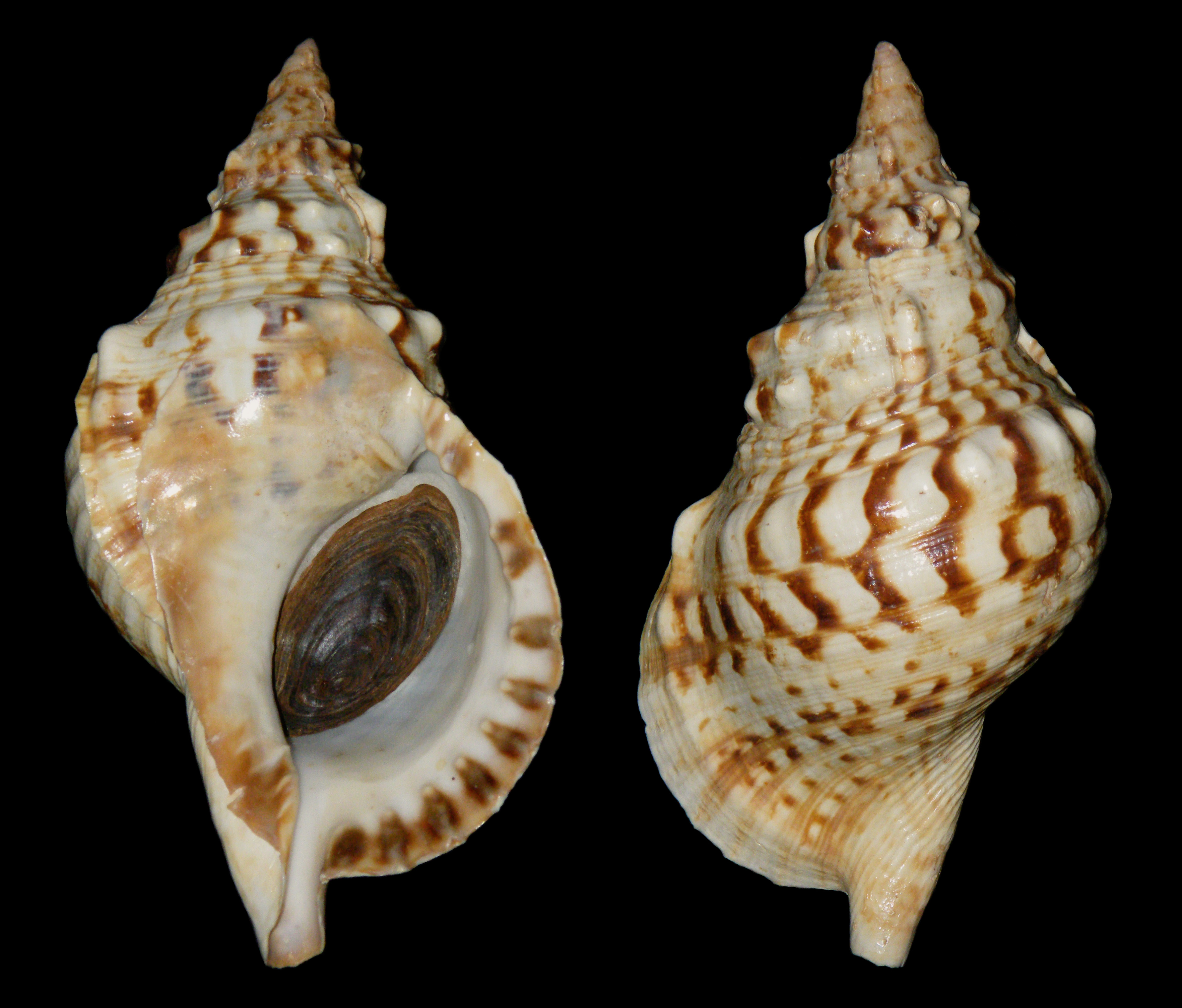 Charonia lampas lampas form nodifera Lamarck, 1822, Morocco. 20 cm. acquired 1987.